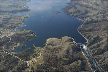 Aerial photograph of Canyon Ferry Dam and reservoir in June 2011